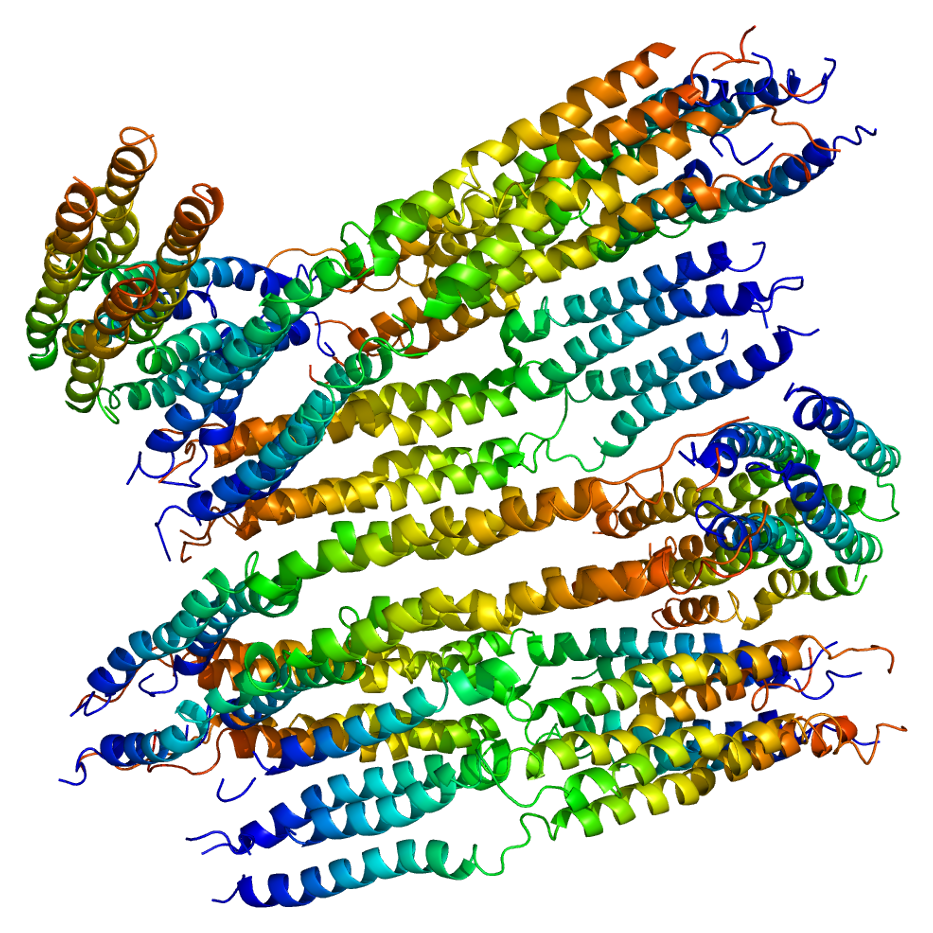 Structure of the APOA2 protein. Based on PyMOL rendering of PDB 1l6l.